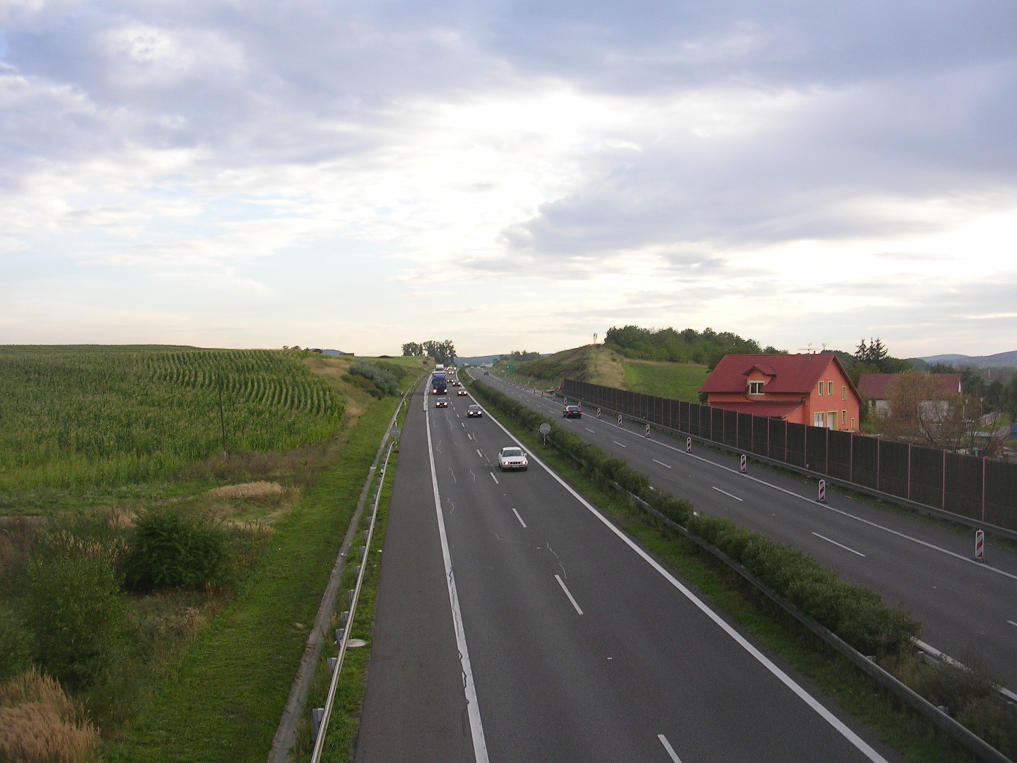 Chlustina, Beroun District, Central Bohemian Region, the Czech Republic. Highway D5.